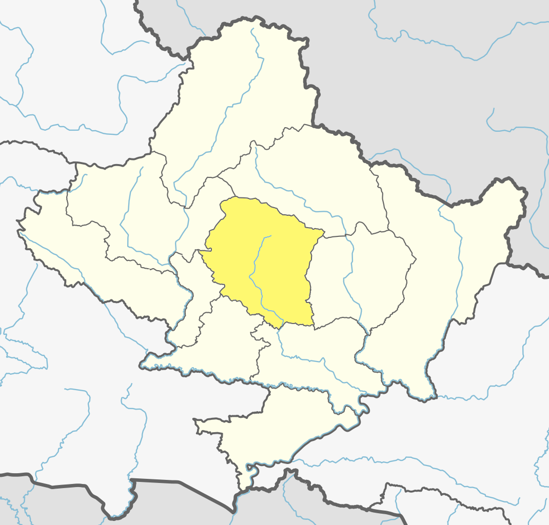 Kaski District